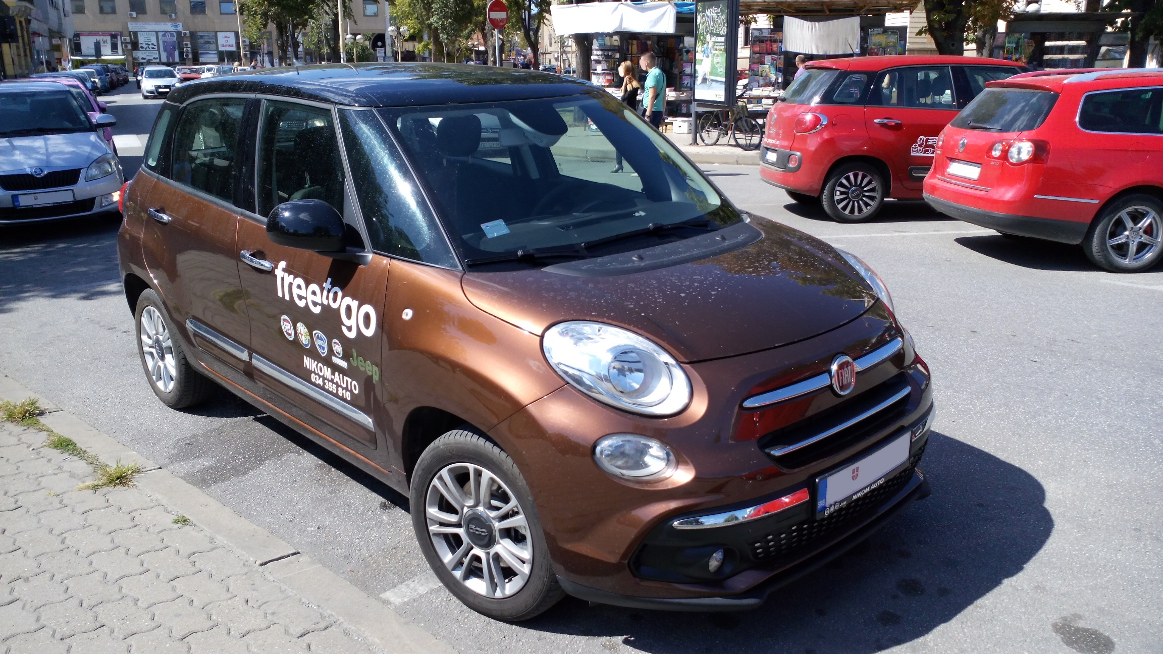 Fiat 500L Facelift in Kragujevac, Serbia